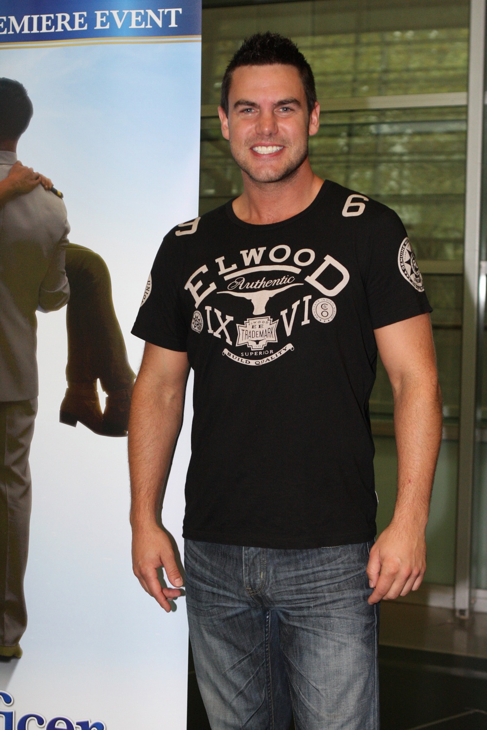 An Officer and a Gentleman The Musical To Play Sydney Lyric Theatre, The Star